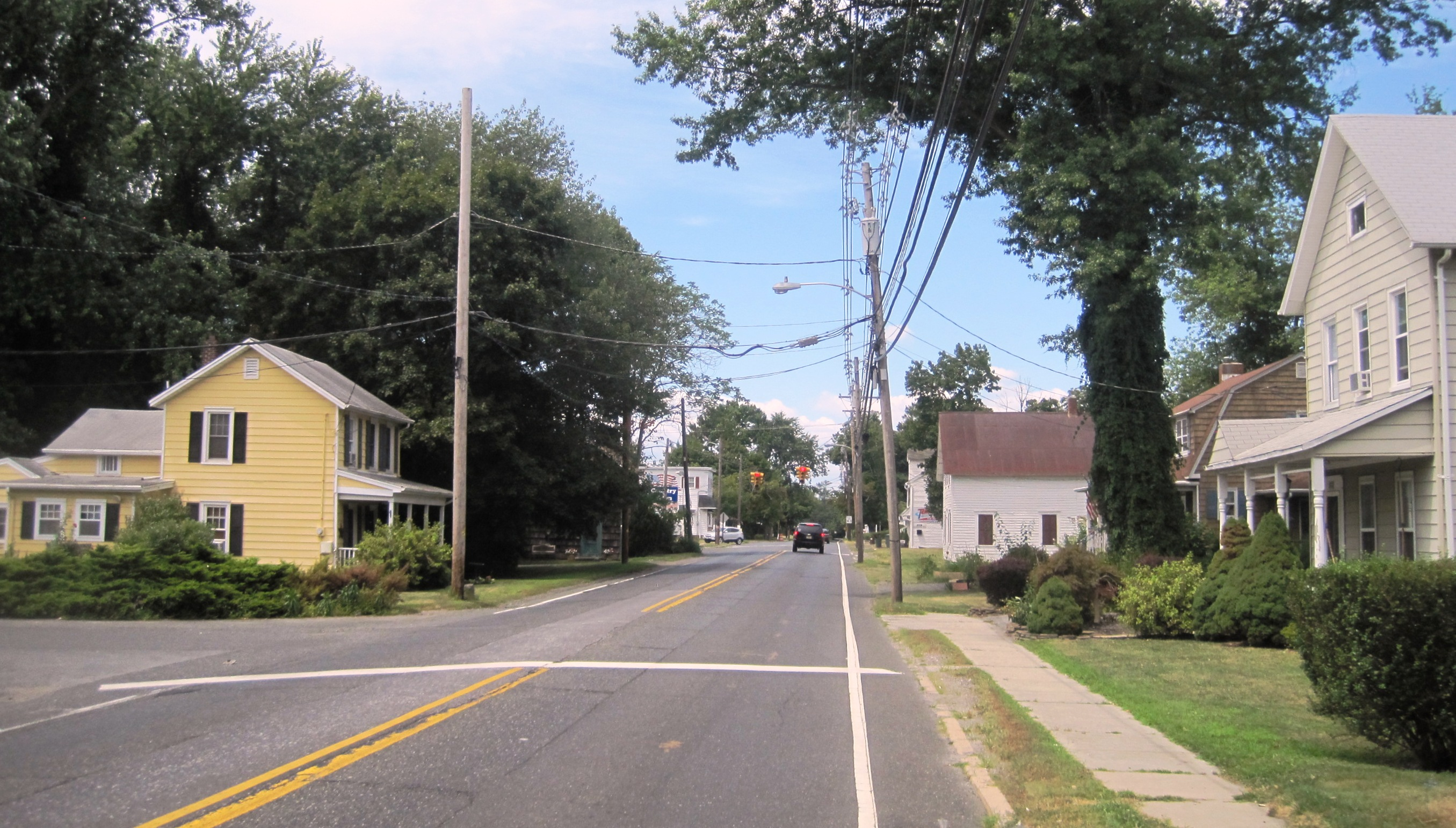 Photo of Adelphia, New Jersey, an unincorporated community within Howell Township. Photo taken on westbound Elton-Adelphia Road (County Route 524) approaching Wyckoff Mills Road.